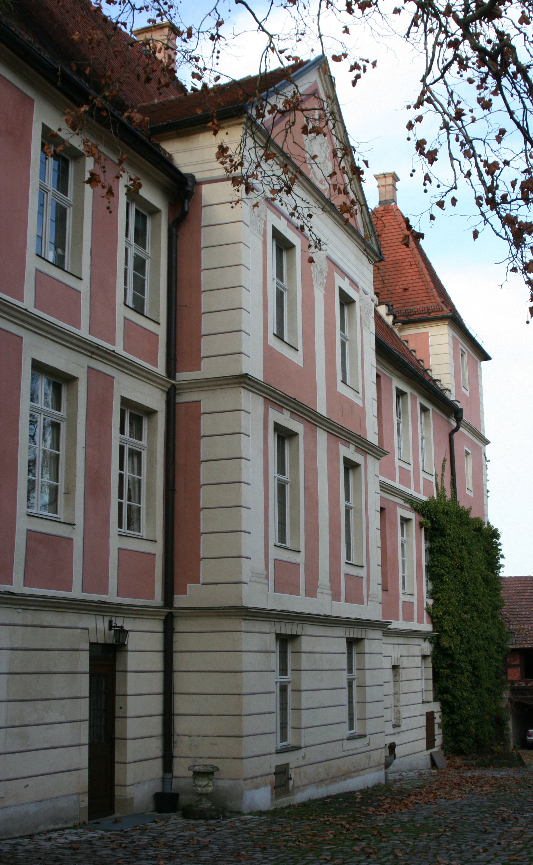 The castle in Obersulm-Eschenau. Back facade